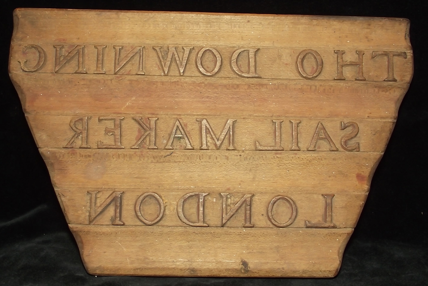 This sailmaker's stamp belongs to Thomas Downing, who operated in London, England during the late 1700's and early 1800's. It is in the collection of The Mariners' Museum in Newport News, VA.